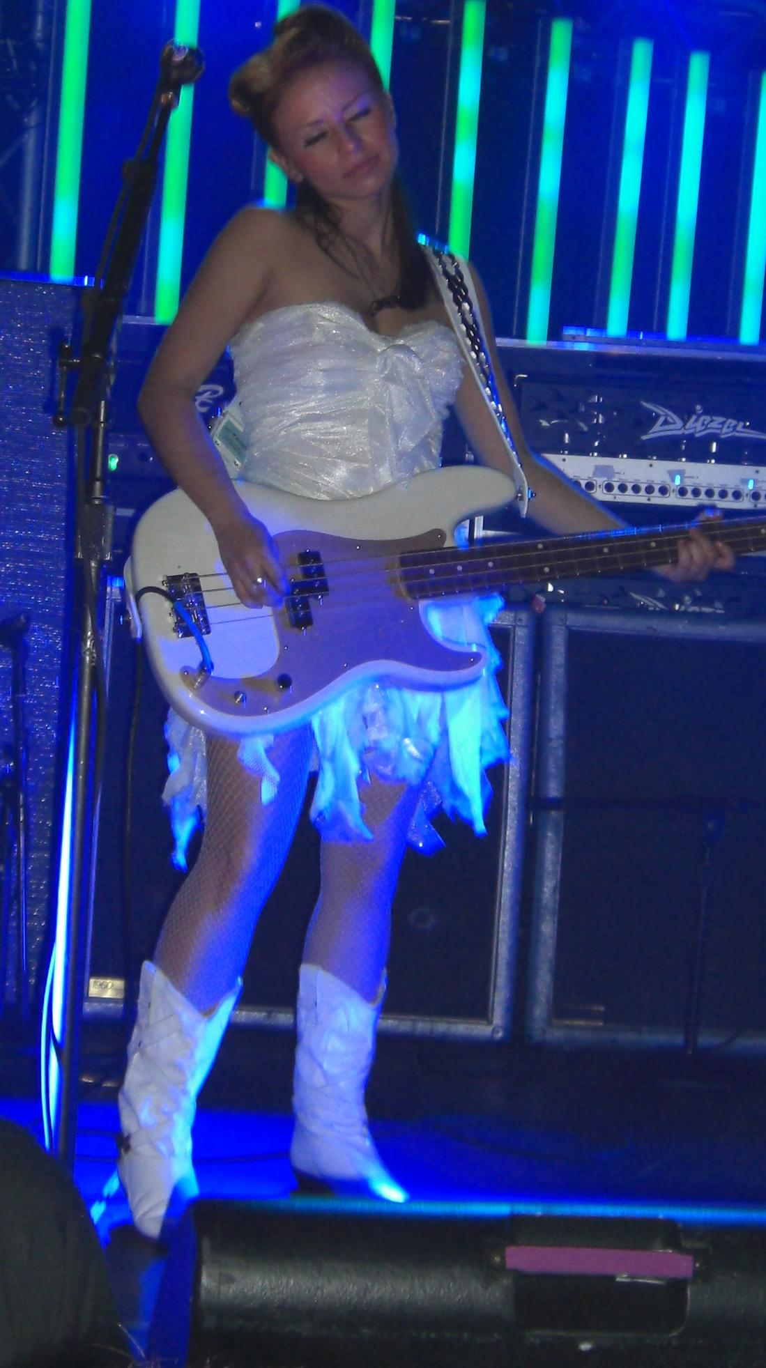 Ginger Reyes (Smashing Pumpkins) on May 24 2007 at "den Atelier", Luxembourg